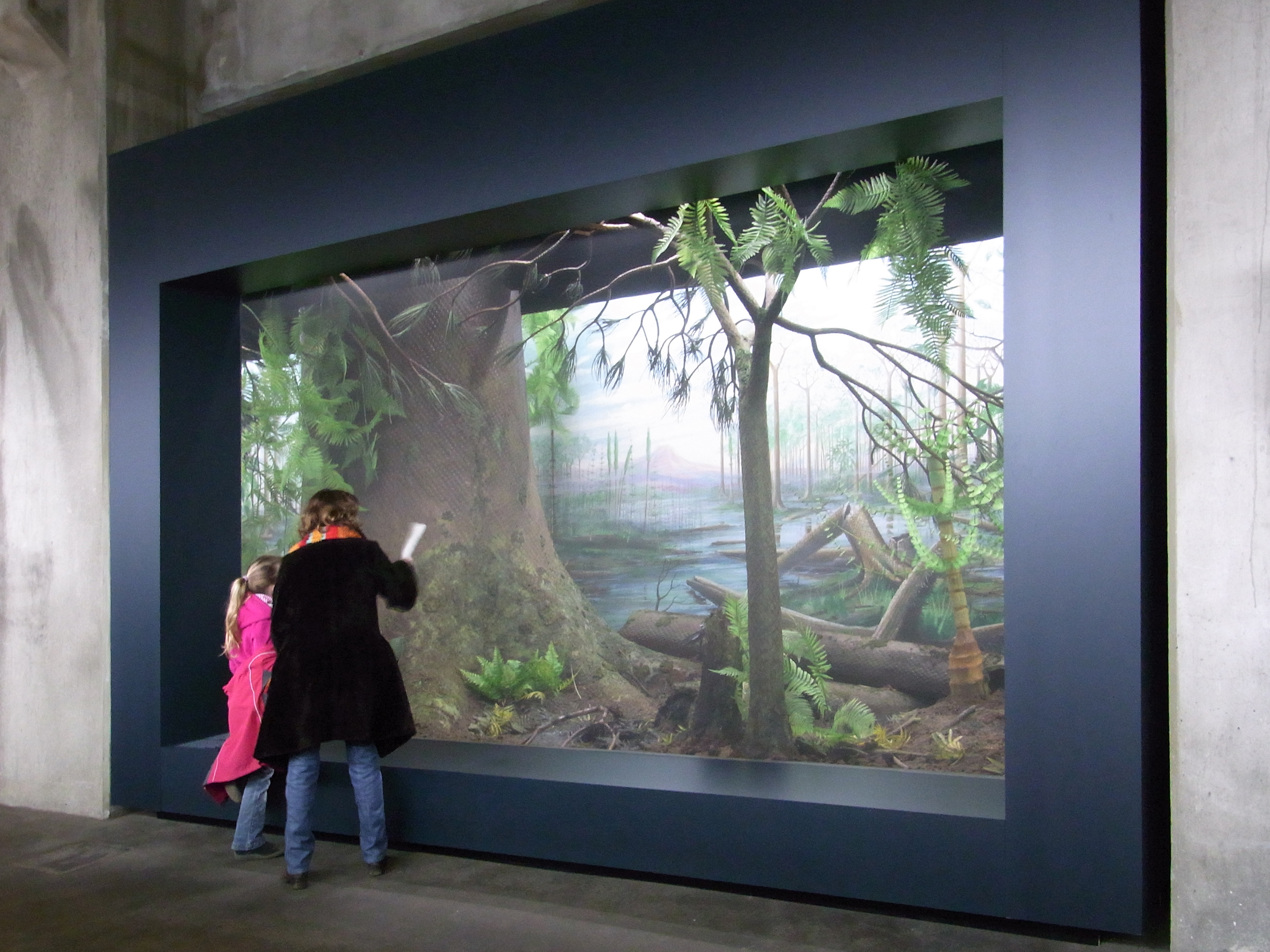 Ruhr Museum at Zollverein Coal Mine Industrial Complex, visitors in front of diorama Carboniferous Period forest